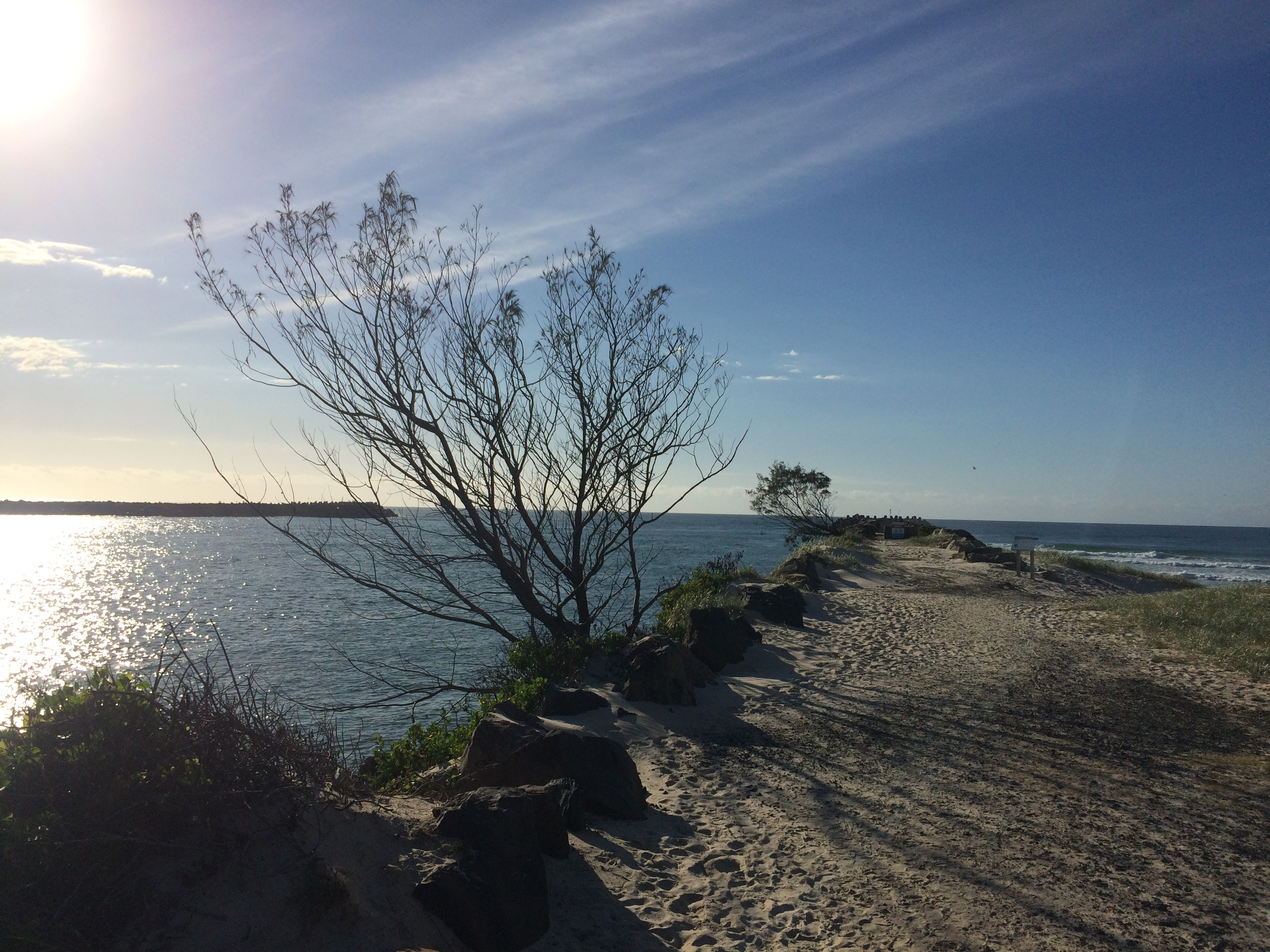 The Richmond River bar (river entrance) from the South Wall